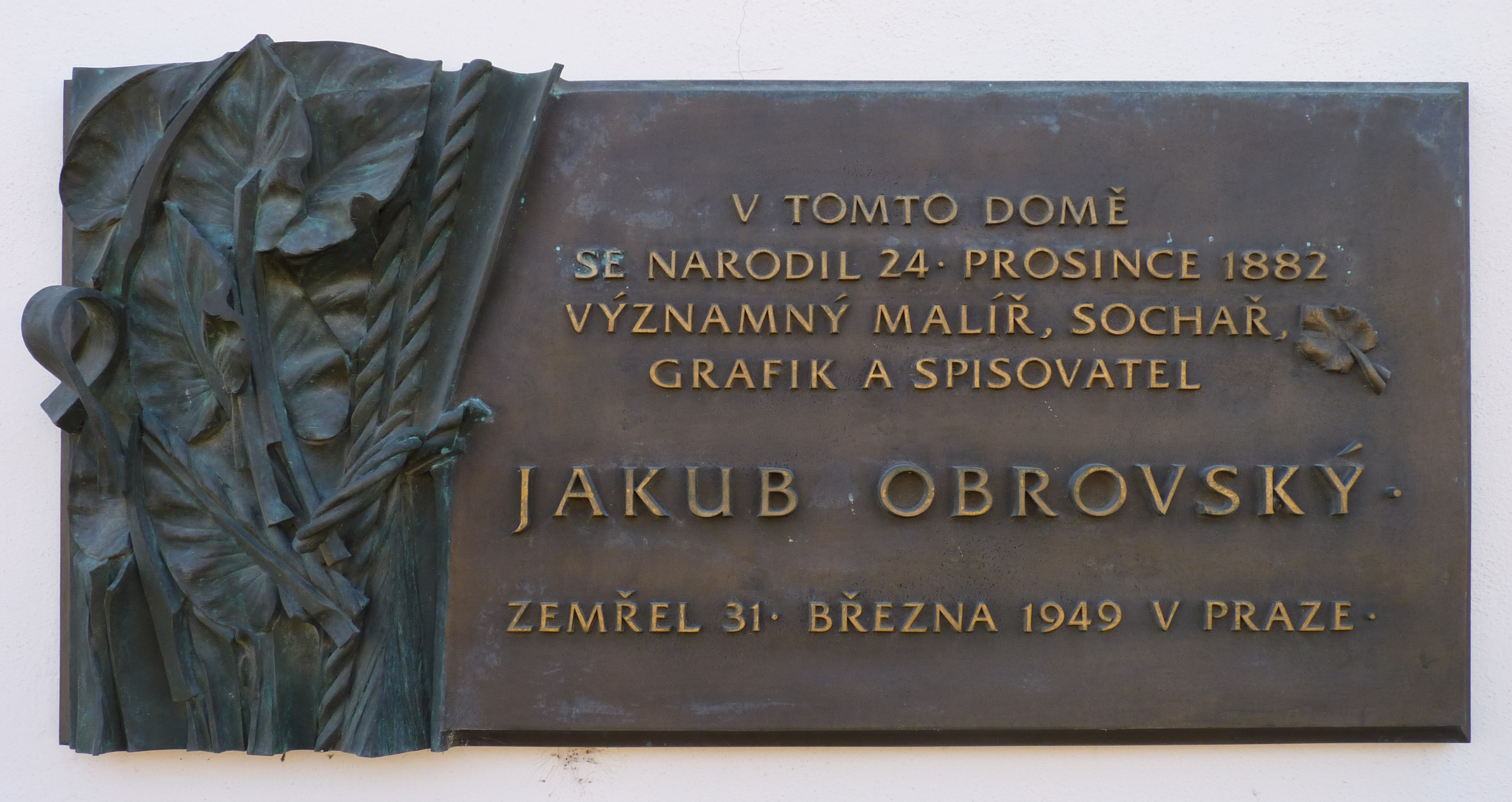 Plaque dedicated to Jakub Obrovský at his birthplace, a small house in Brno-Bytrc, Czech REpublic